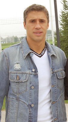 Hernán Crespo at Parma's training ground in Collechio.